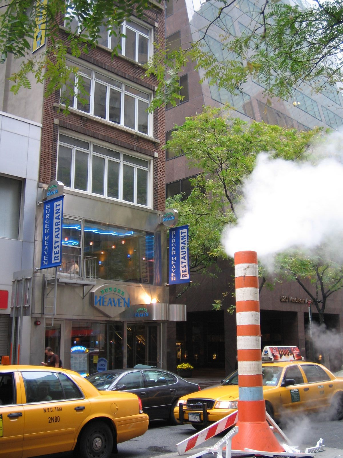 Looking northeast across 53d Street at Burger Heaven restaurant, New York, New York (USA)